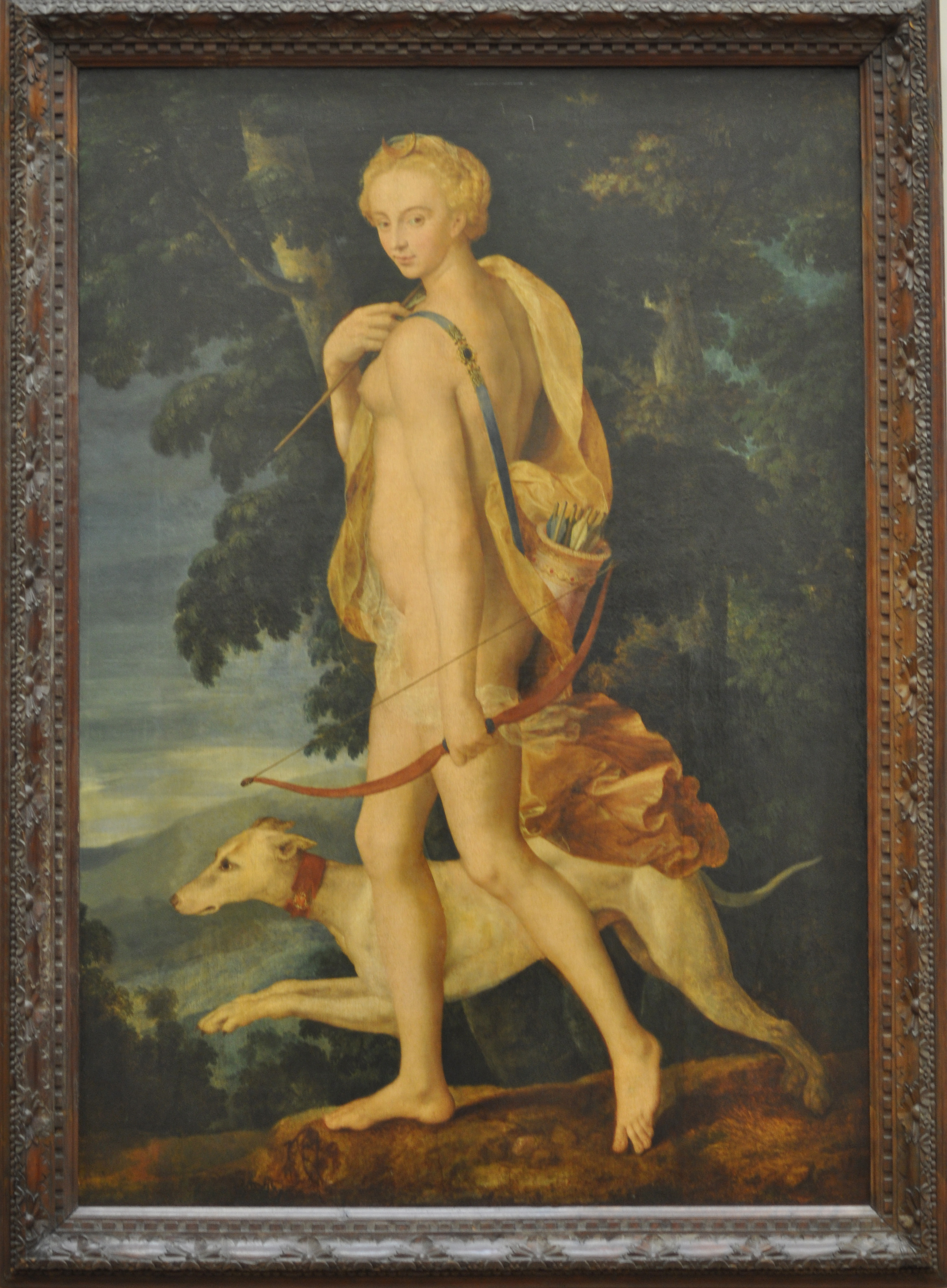 Depicted person: Probably Diane de Poitiers with frame